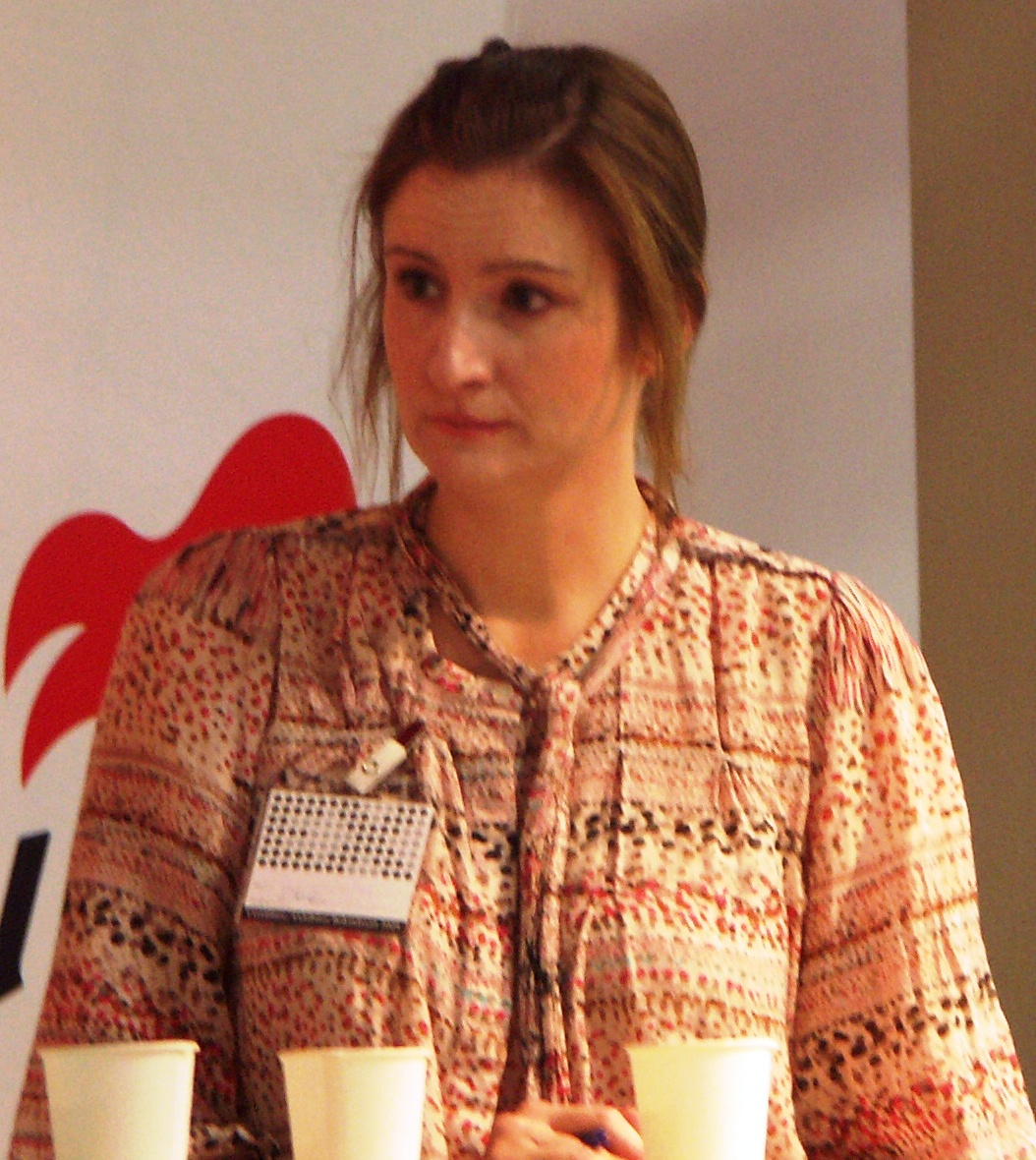 Swedish politician Birgitta Ohlsson at the 2009 Gothenburg Book Fair. She was appointed Minister for EU Affairs on february 2nd, 2010.